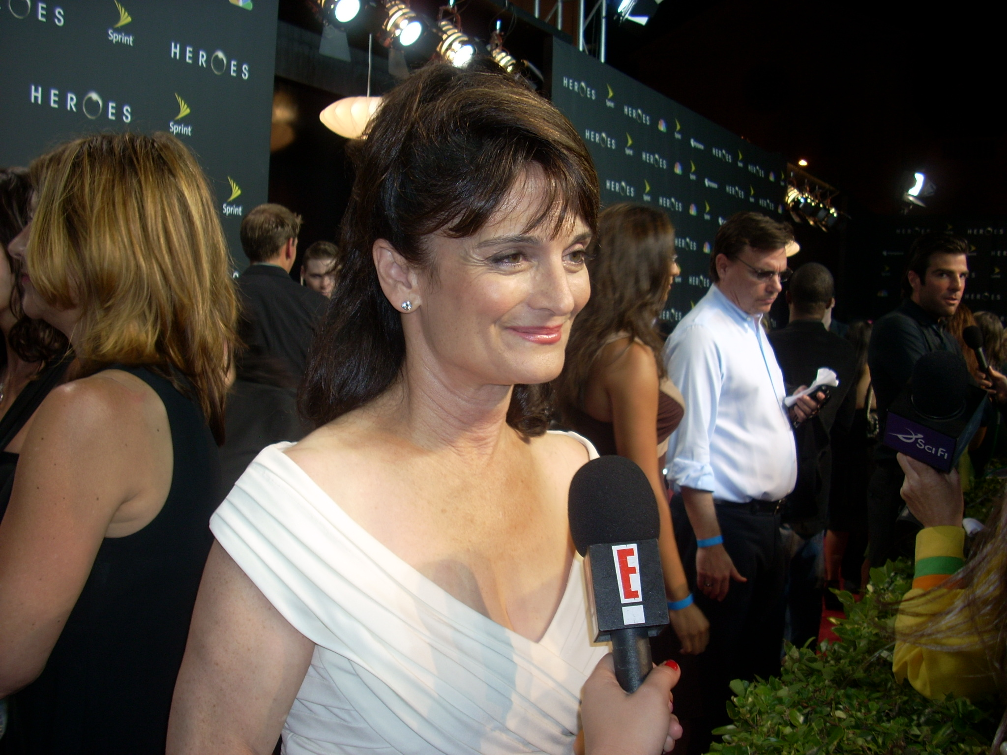 Cristine Rose - "Heroes" Season Three Premiere Party, Edison L.A., Downtown Los Angeles - Sept. 7, 2008